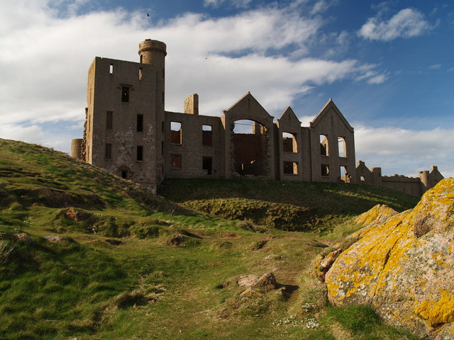 Slains Castle